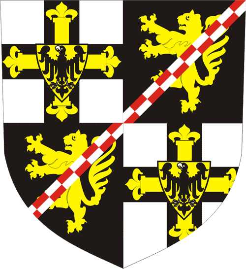 Teutonic Order - Coat of Arms of the Grandmaster Hartmann von Heldrungen